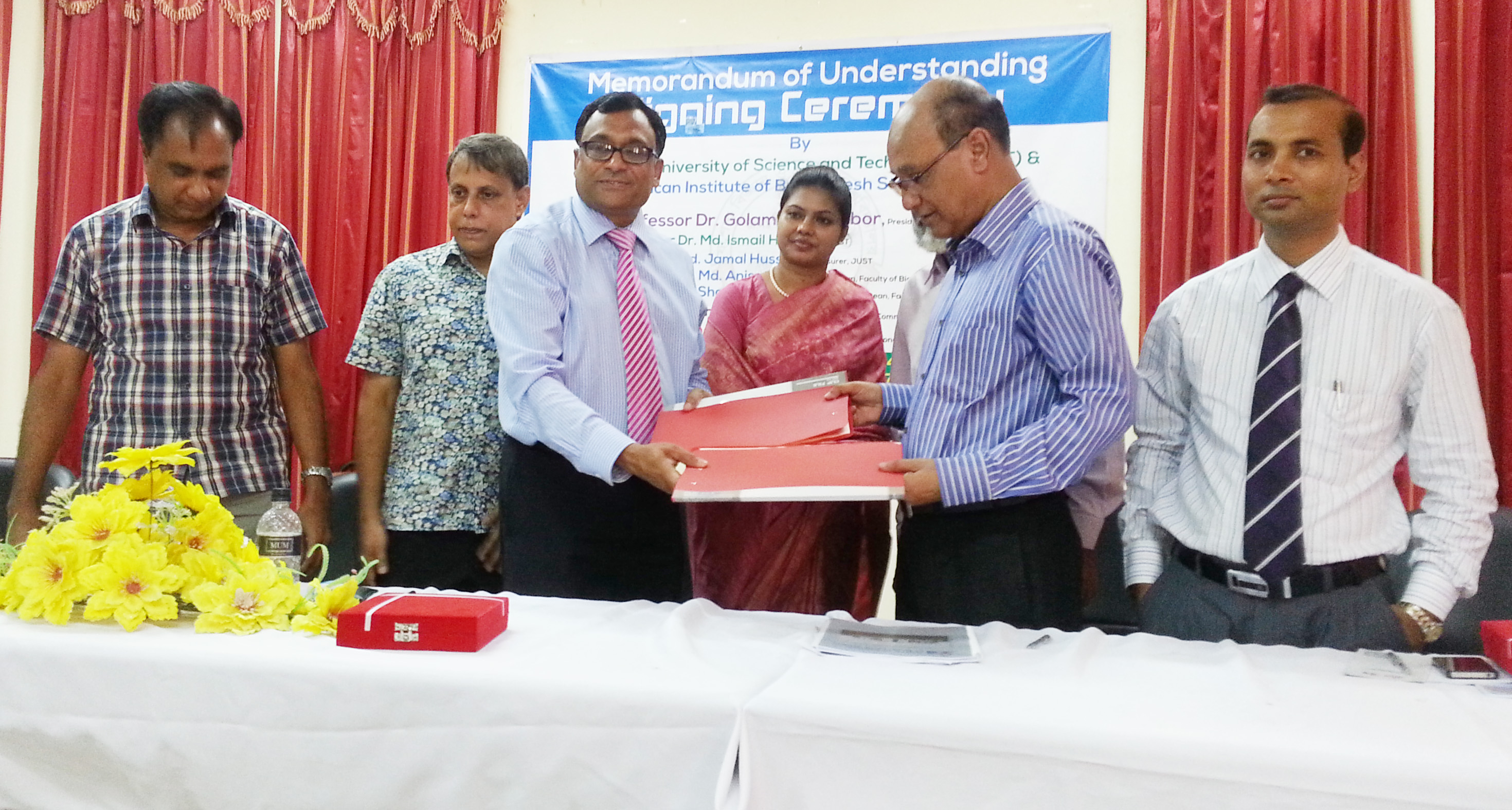 The MOU signing ceremony between Shahjalal University of Science and Technology and American Institute of Bangladesh Studies